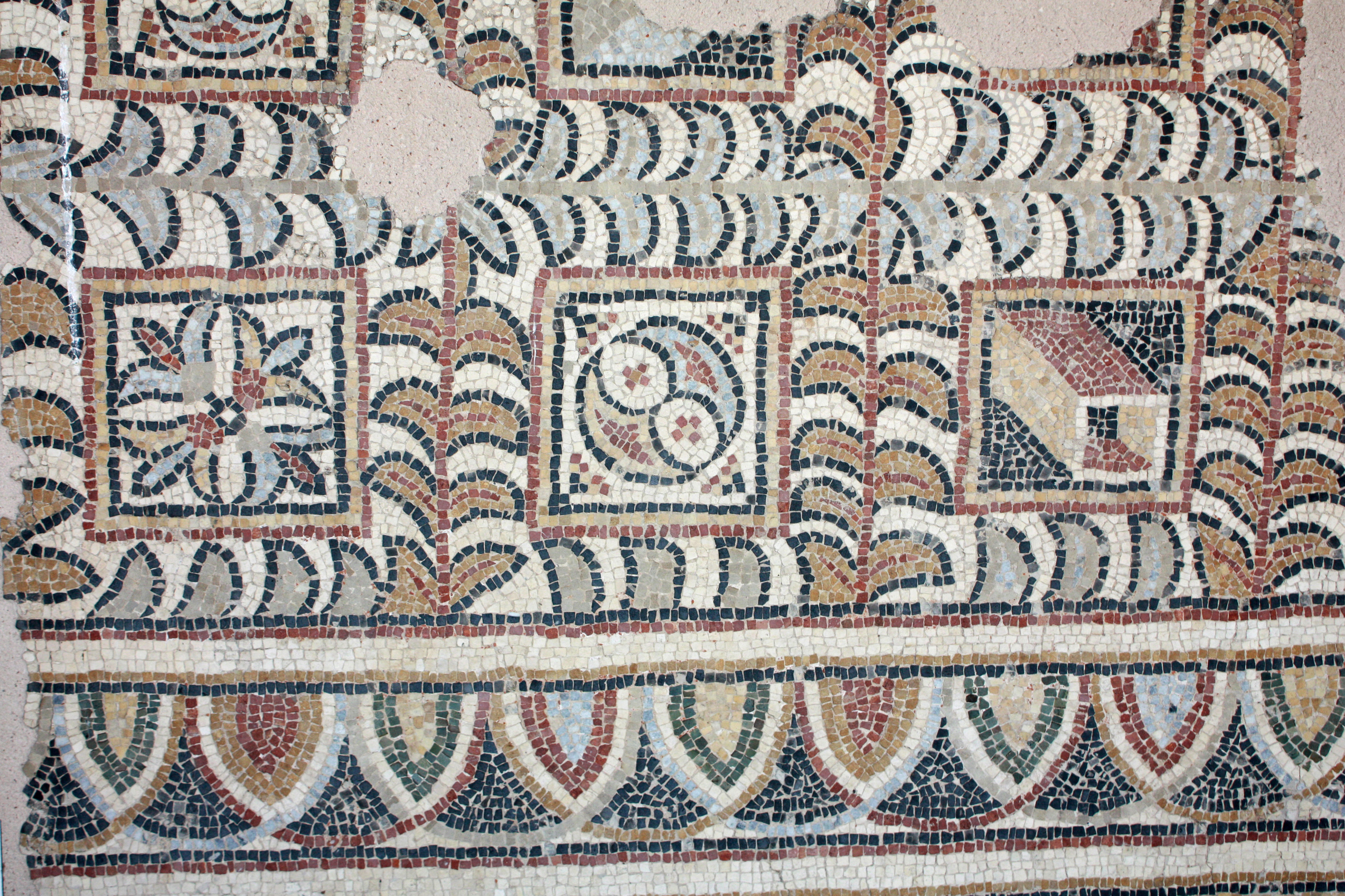 Mosaic of a Roman villa, on deposit in the gallery of the refectory.